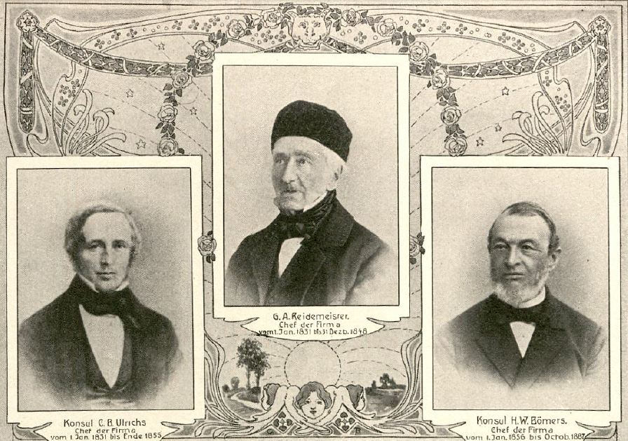 Reidemeister & Ulrichs Wine Merchants Founders